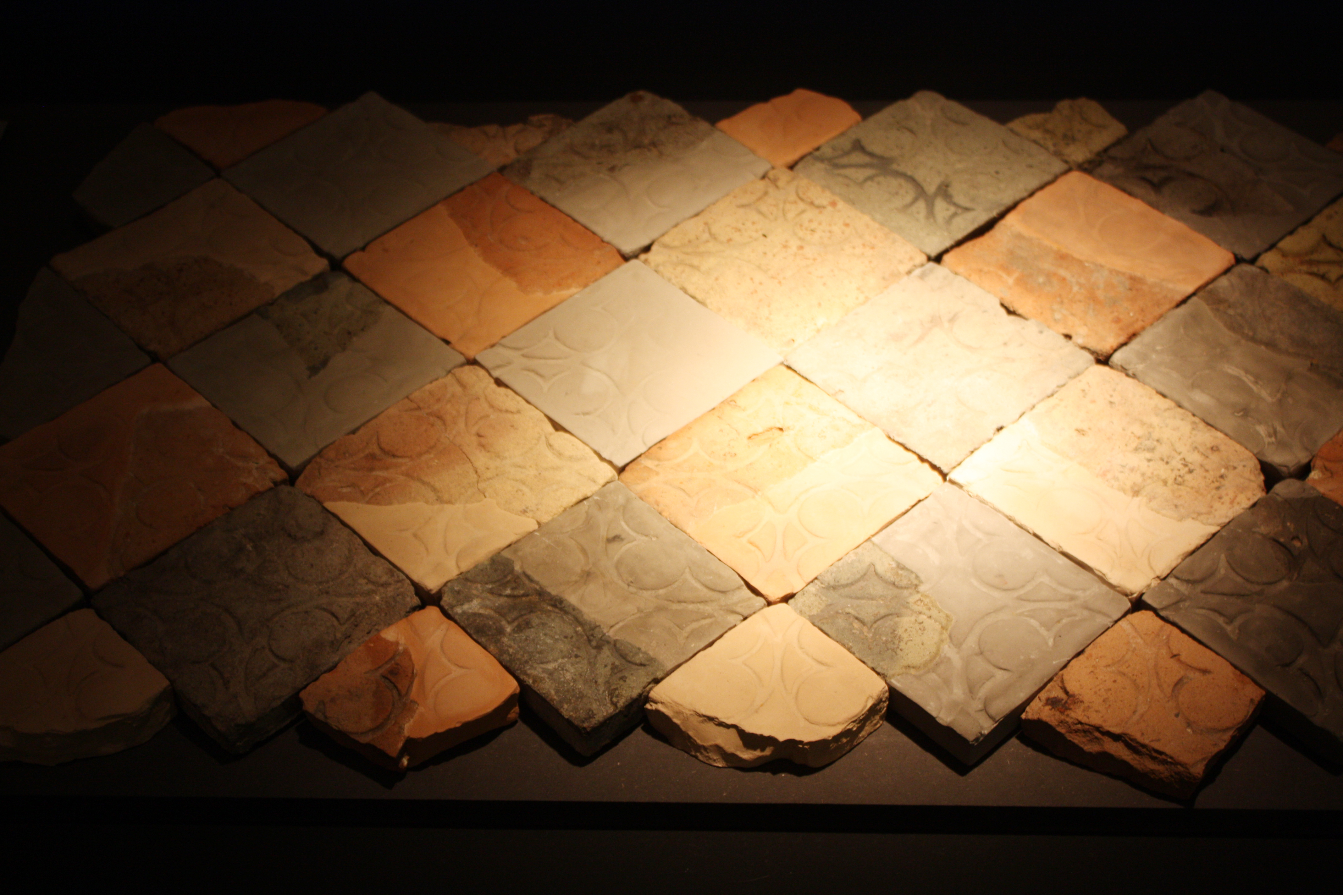 Archaeological ceramics in Cologne, Germany